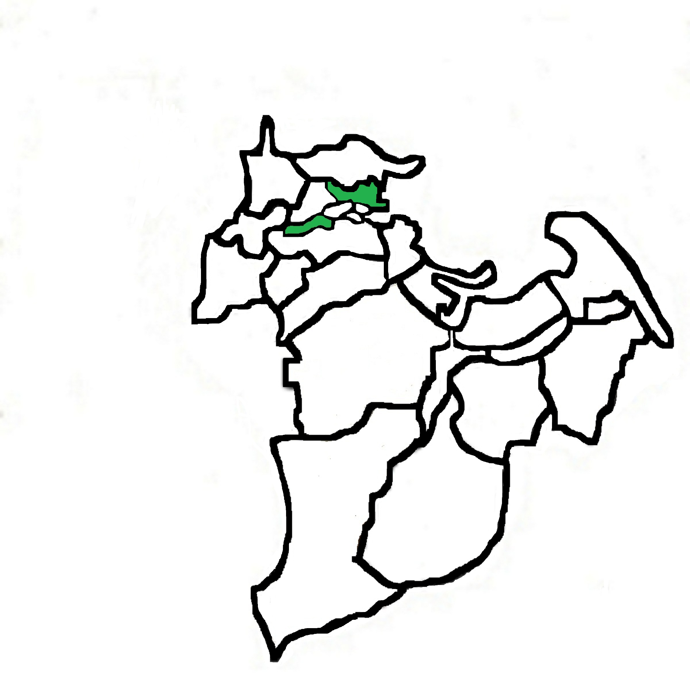 Komatsushimatown Komatsushimacity Tokushimapref range